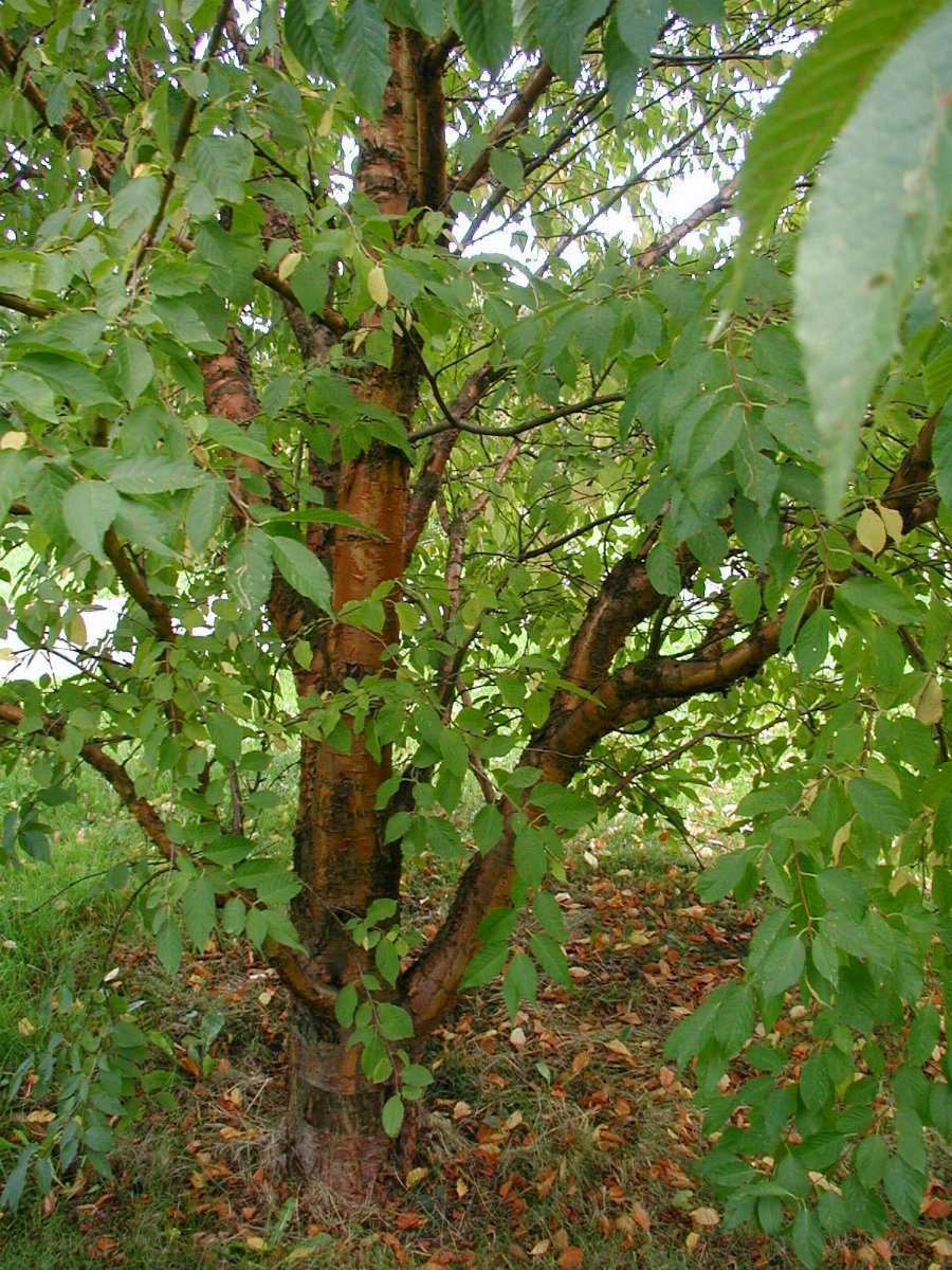 Description: Prunus maackii, habit of a young tree. Source: Own photo, taken in Jutland, Sep 2001. Author: Sten Porse